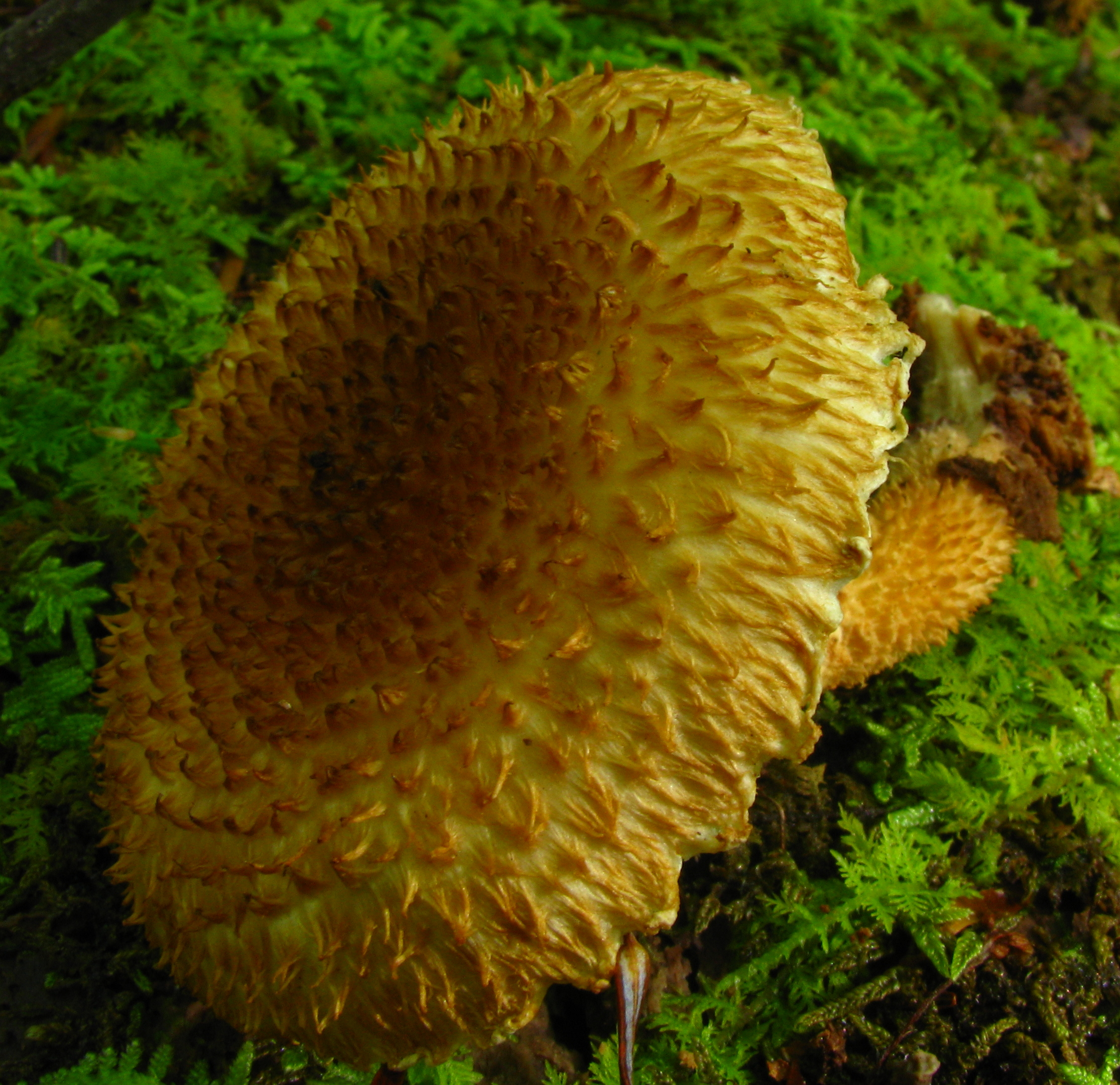 View of the cap of the mushroom Leucopholiota decorosa O.K. Mill., T.J. Volk & A.E. Bessette. Photographed in Cranberry Wilderness, Monongahela National Forest, West Virginia, USA.